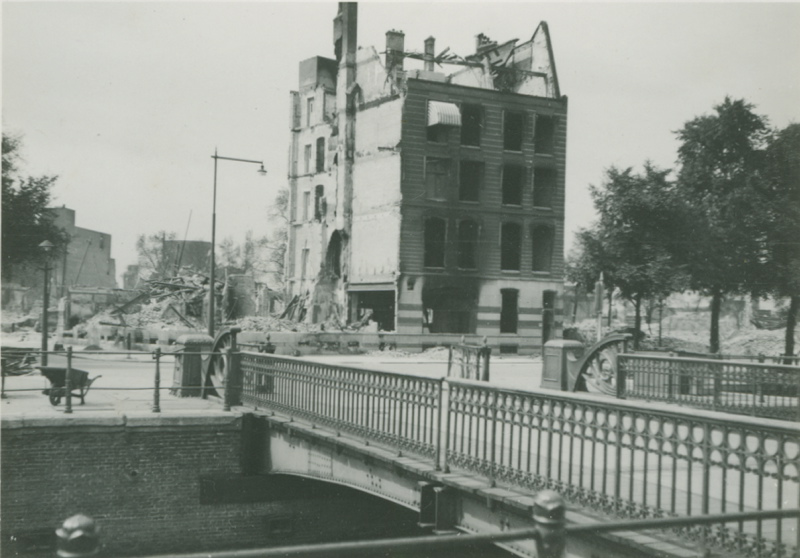 Hotel Weimar on the Spaansekade with the Haringvliet on the right. In the foreground the Spanjaardsbrug. Destruction caused by German bombing on May 14, 1940.